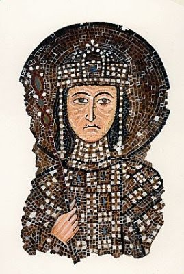 The co-Emperor Alexios, eldest son of John II, portrayed in a mosaic in the church of Hagia Sophia